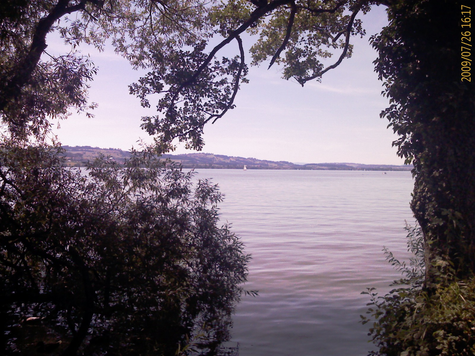 Lake Sempach, view from Sempach, canton of Luzern, SwitzerlandEsperanto: Lago de Sempach, vidita de Sempach, Kantono Lucerno, Svislando